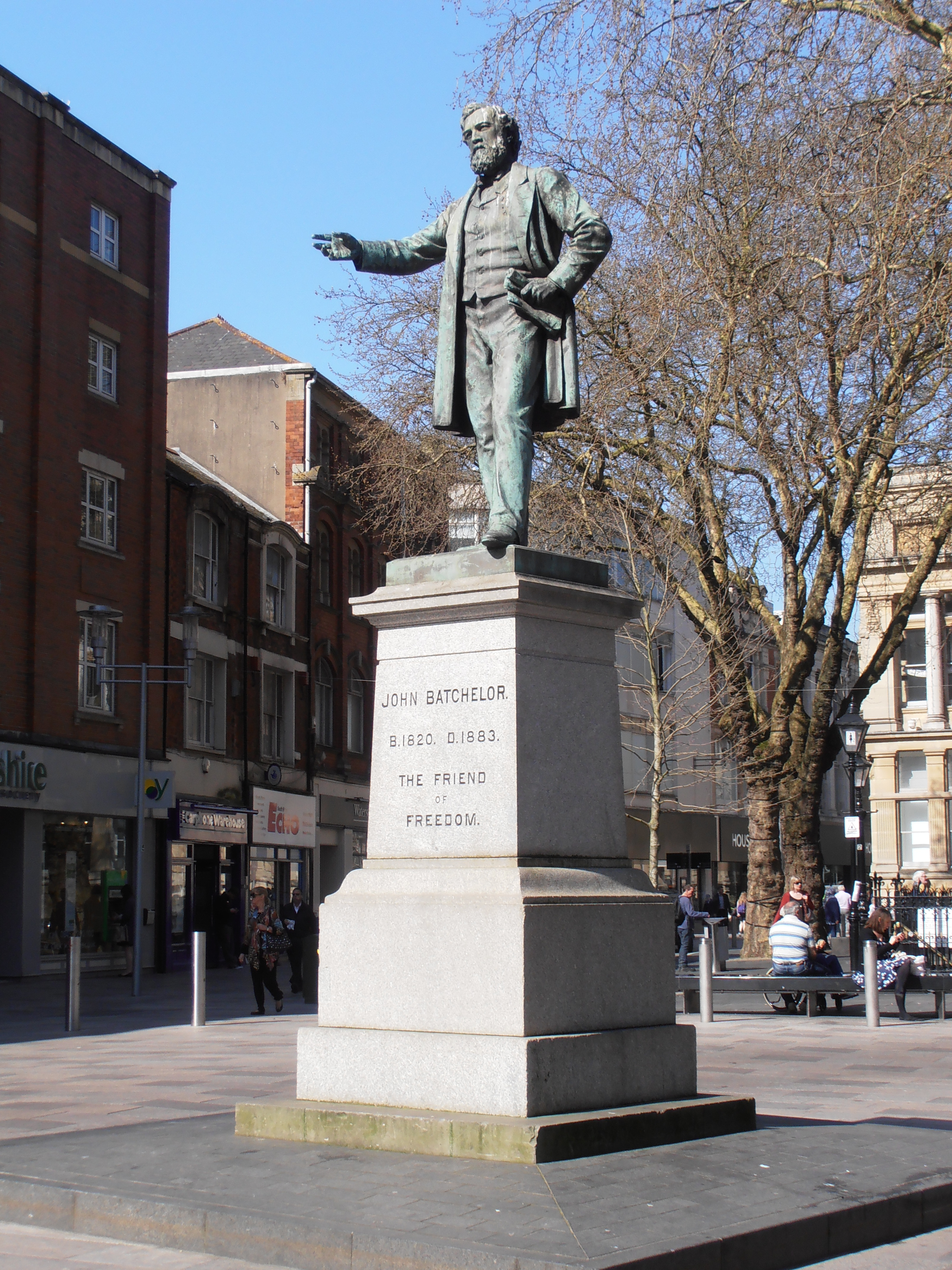 Statue of the Liberal politician John Batchelor (1883–6) by James Milo Griffith. The Hayes, Cardiff